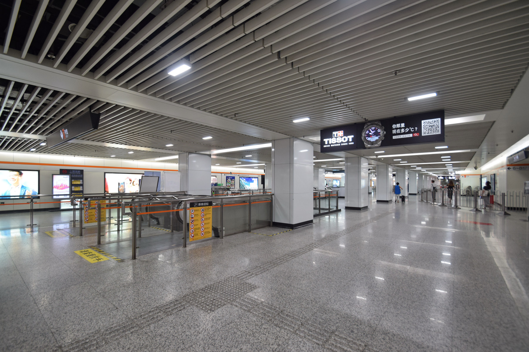 Line 7 Concourse of Changshu Road Station, Shanghai Metro